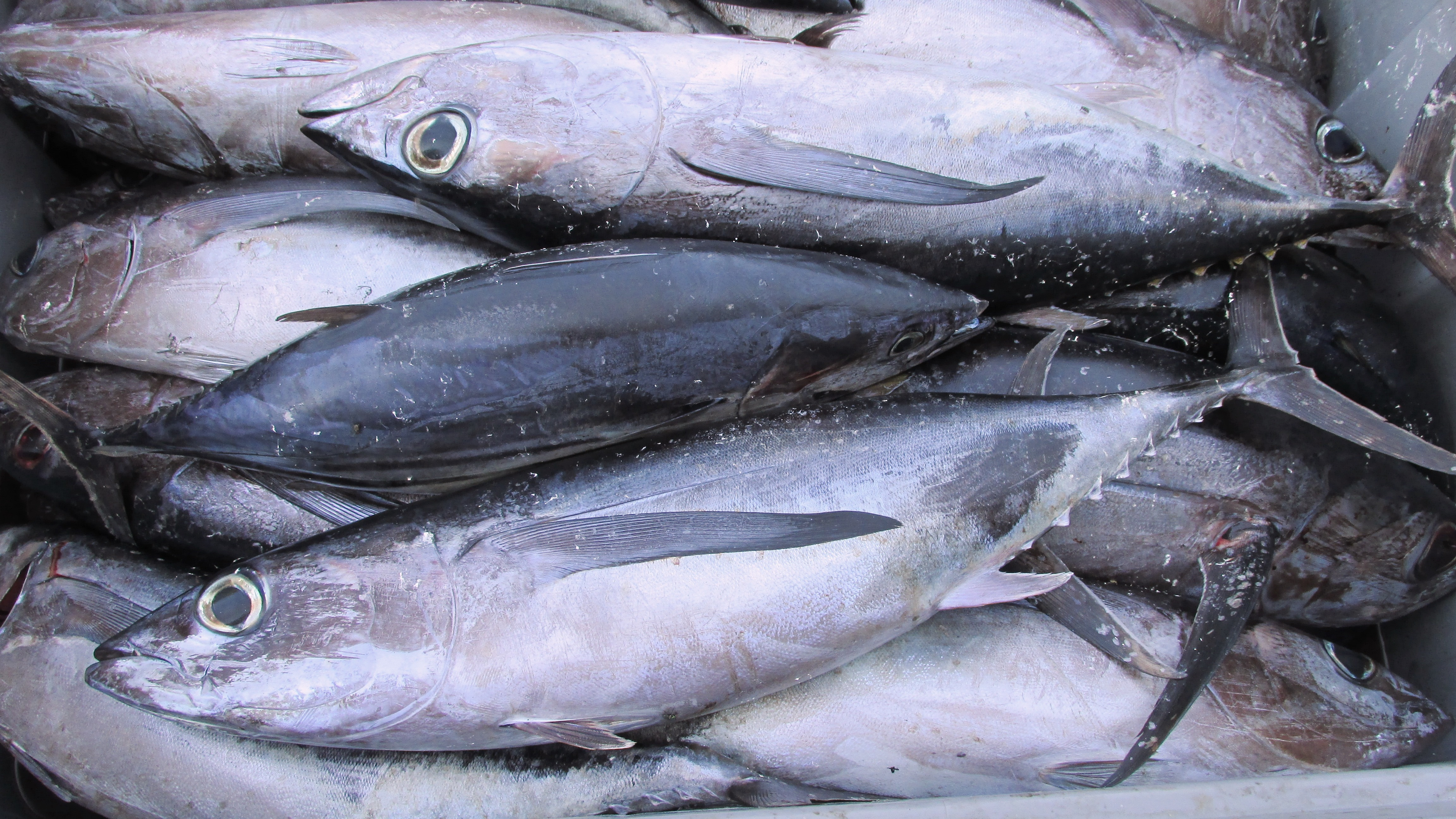 Albacores (Thunnus alalunga) caught off Cyprus